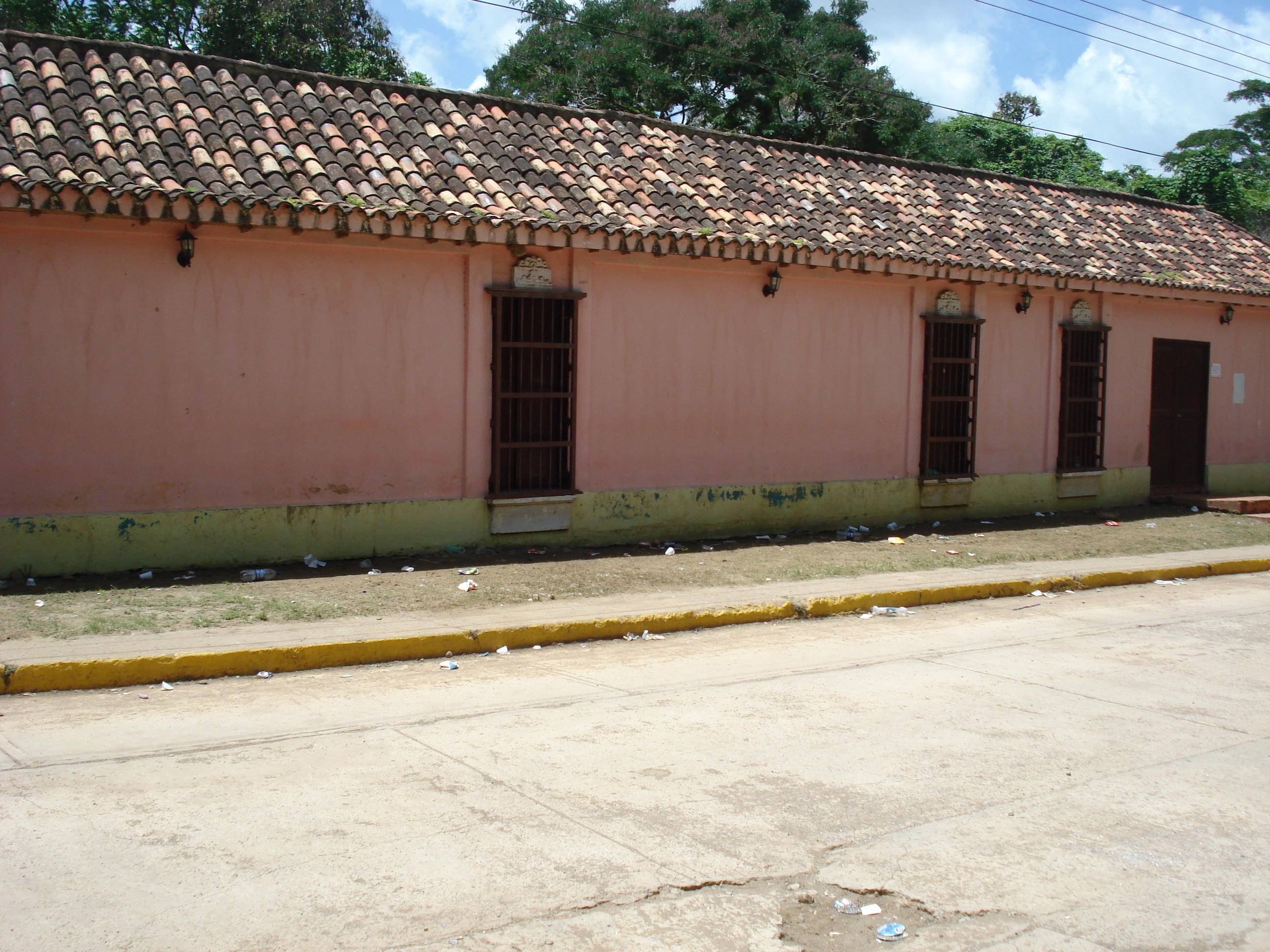 photo